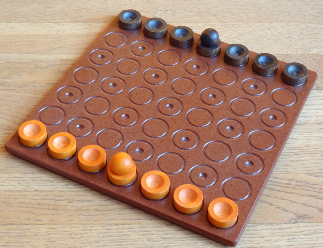 illustration of the game Diaballik